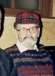 German gore director Andreas Schnaas (left) and the late Lucio Fulci (right) at the 1994 Eurofest, London, England.